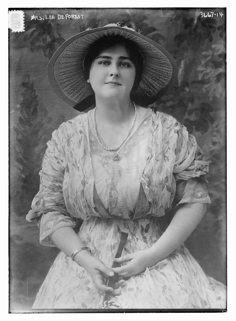 Mary Mayo (1892-1957) who married Lee DeForest